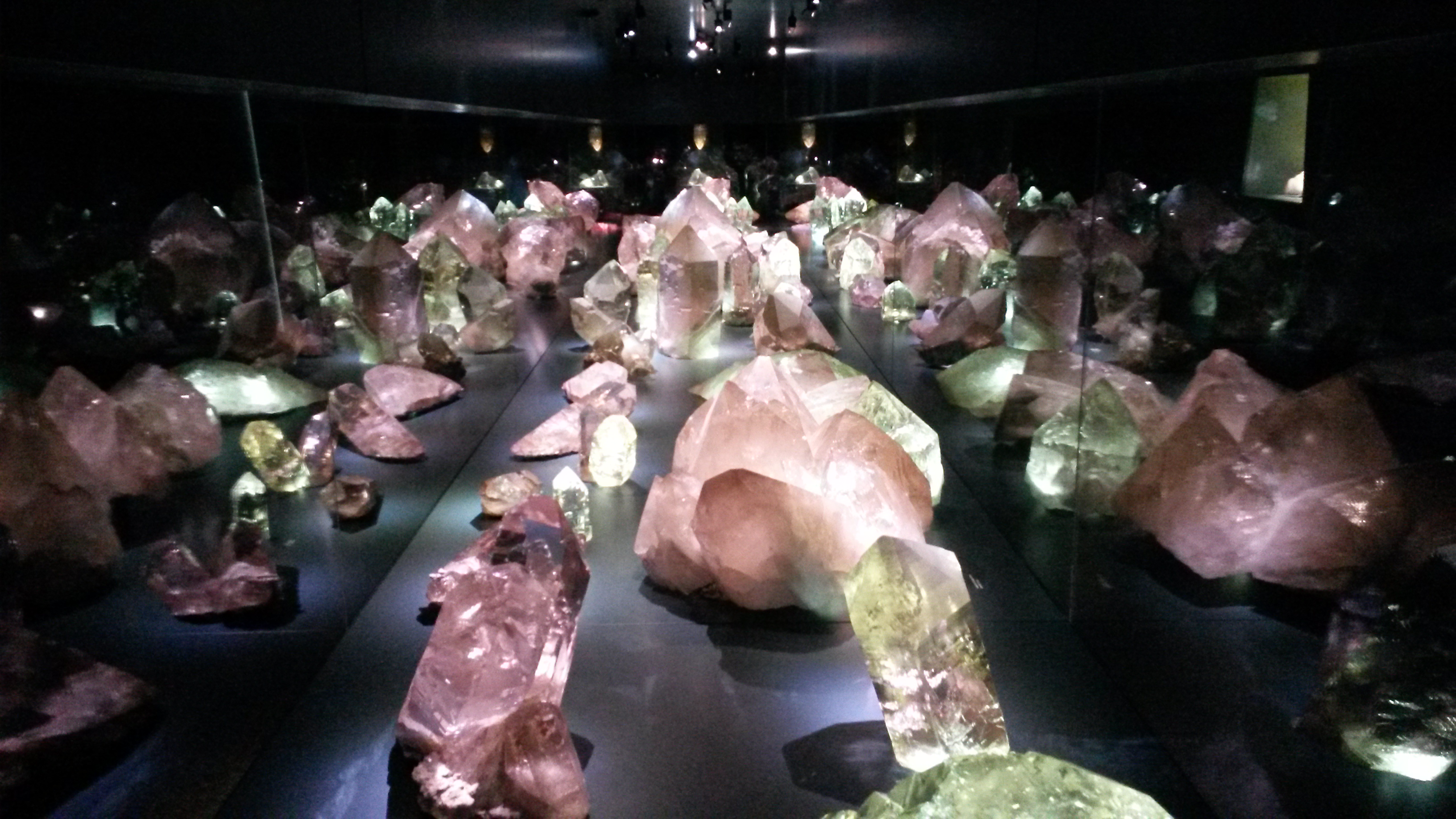 Schatz vom Planggenstock im Naturhistorischen Museum der Burgergemeinde Bern